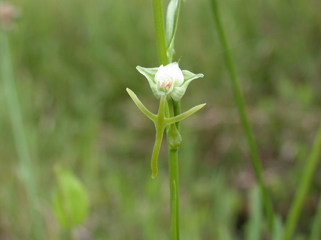 Habenaria sagittifera (Orchidaceae); Japanese name: Mizutonbo Taken in Nachikatuura town, Wakayama prefecture, Japan